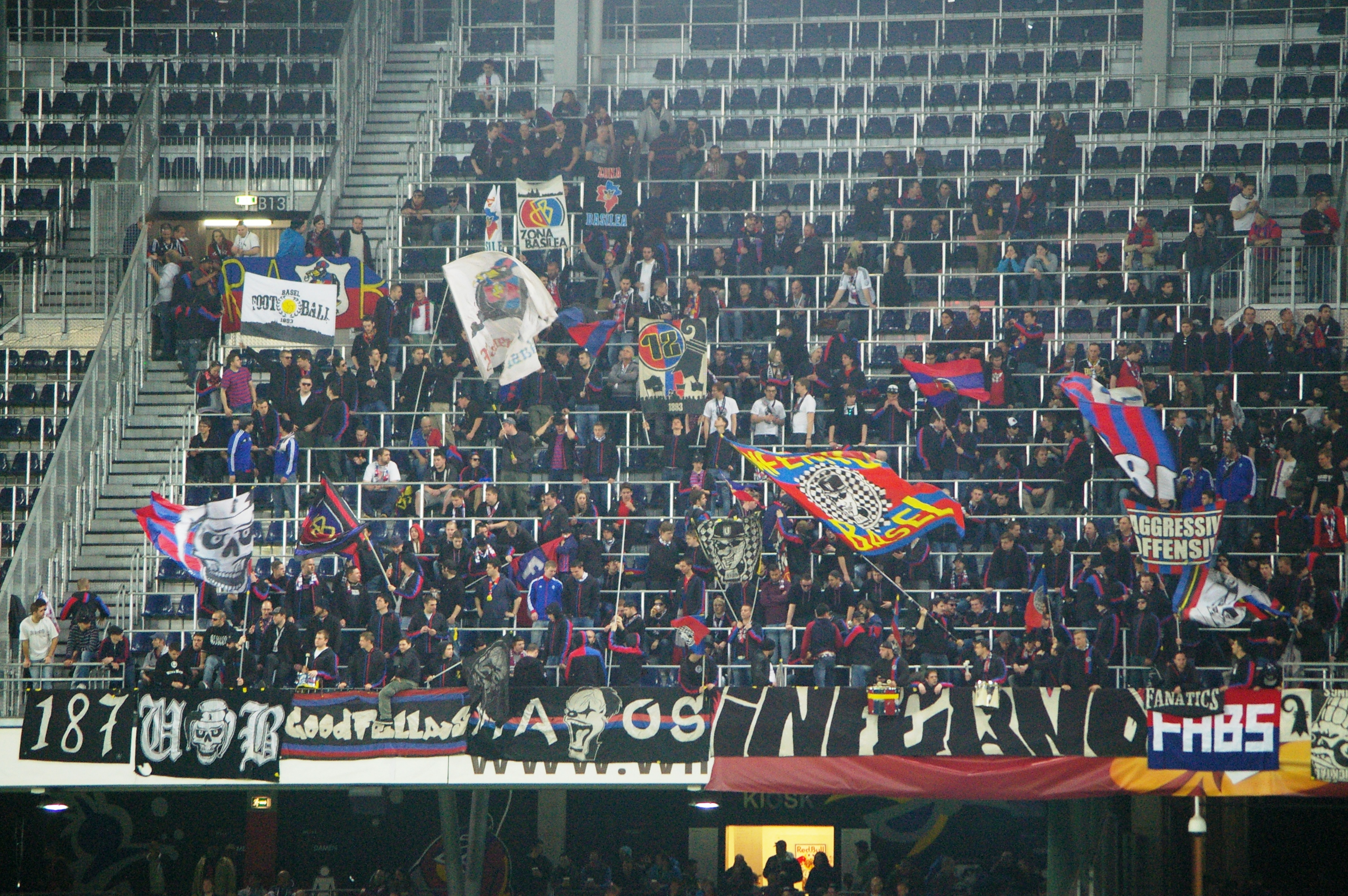 Euro league 2014 round of 18